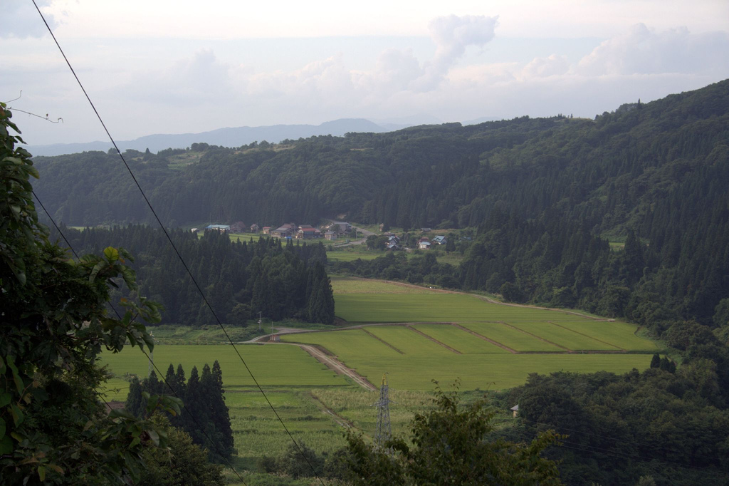 A view of Obanazawa Basin from Shin-Tsuruko dam.